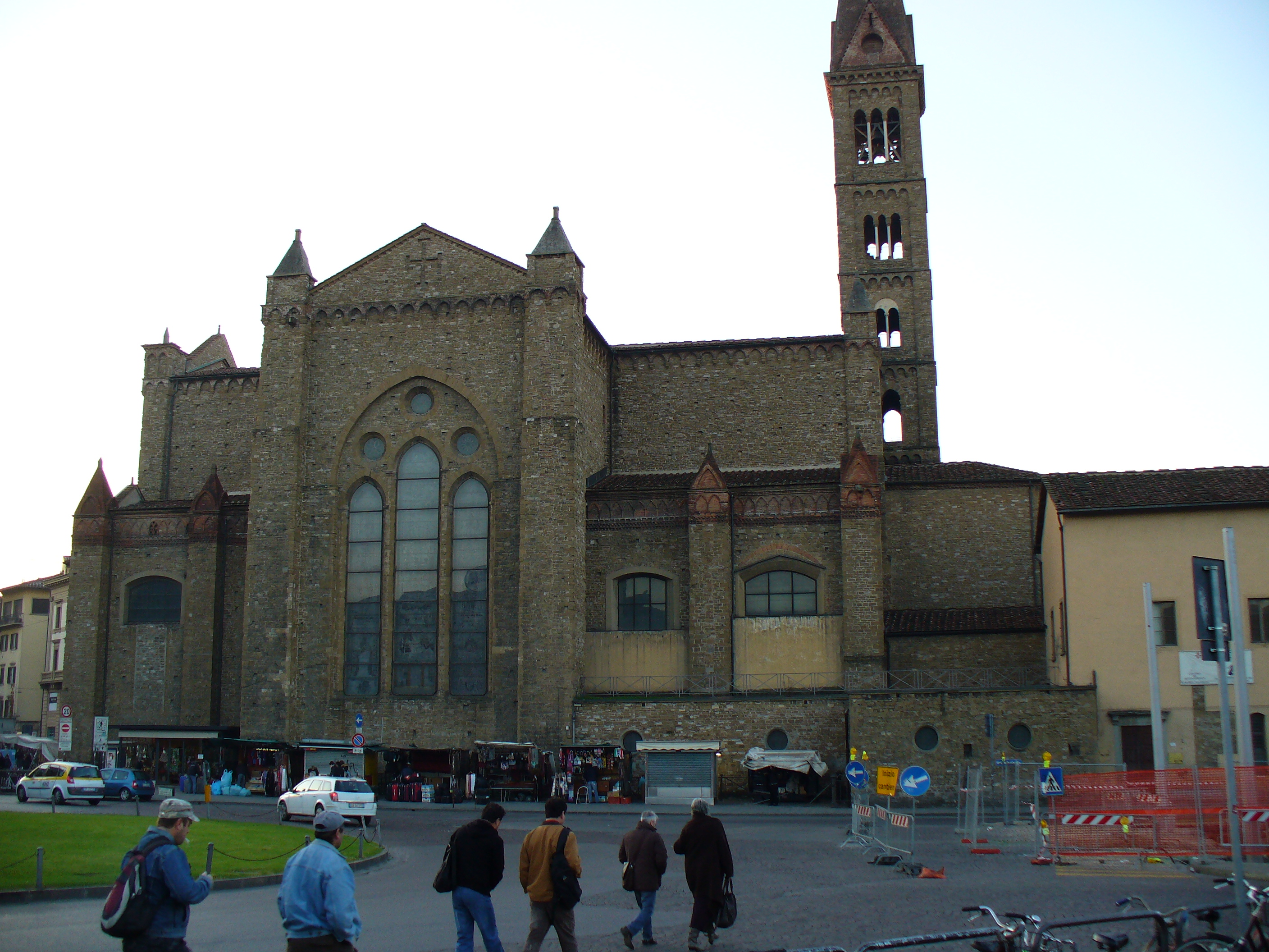 Abside of Santa Maria Novella